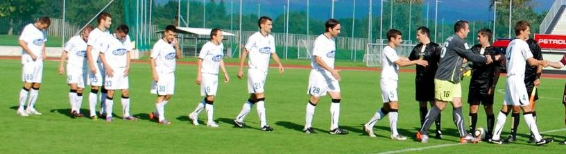 NK Olimpija